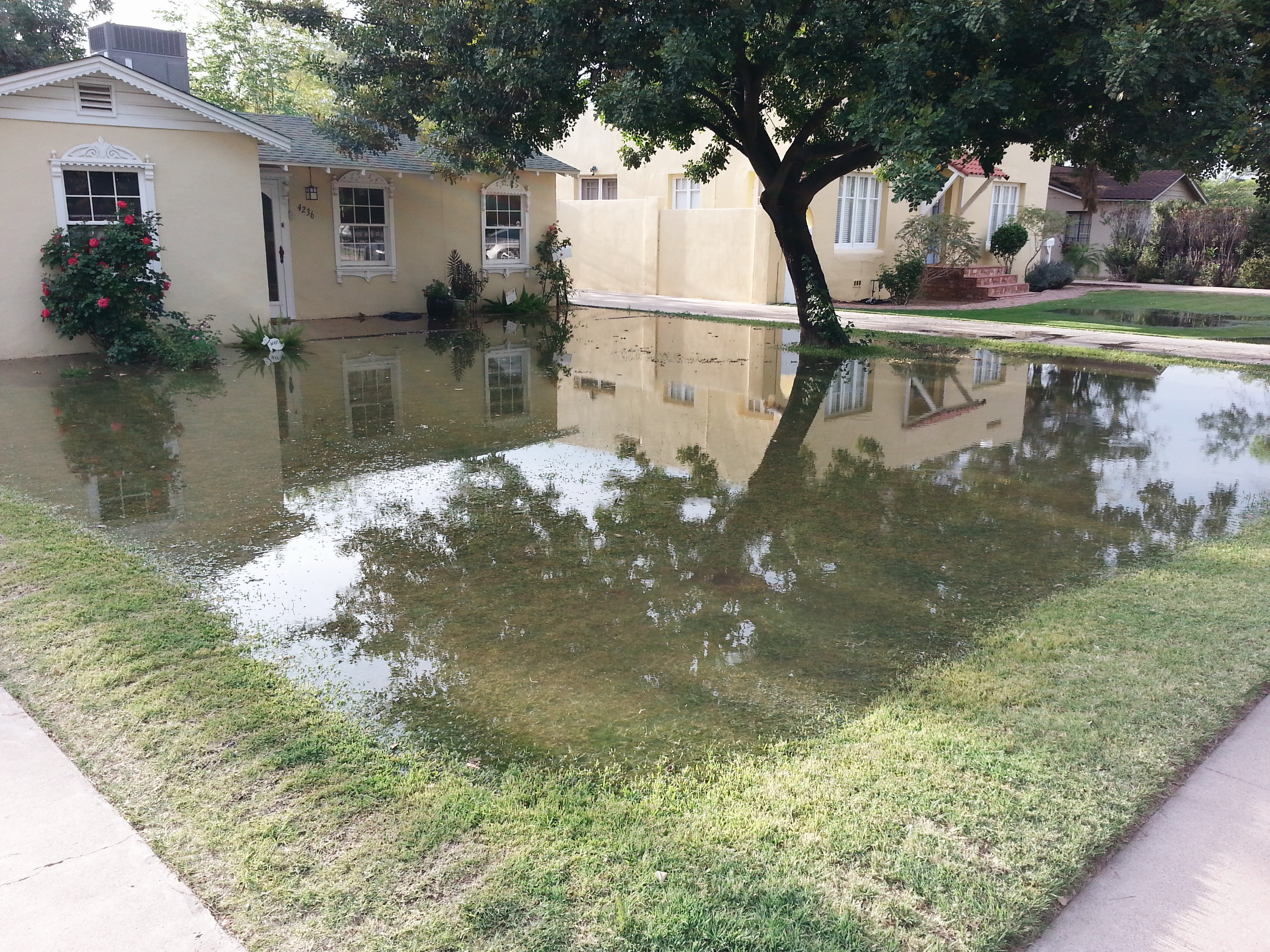 Residential flood irrigation in Phoenix, Arizona, in the United States of America. Melrose neighborhood.